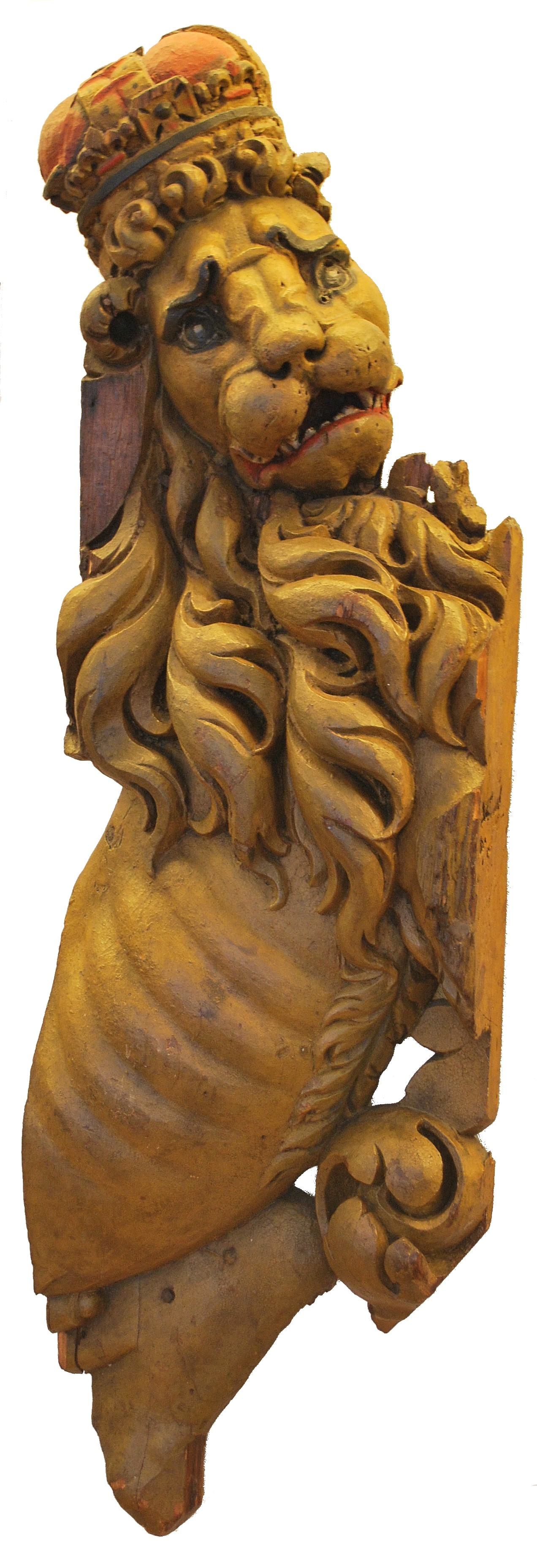 Lion from English ship sunk at the Battle in Vågen in Bergen i 1665. Now found in Bergen sjøfartsmuseum.